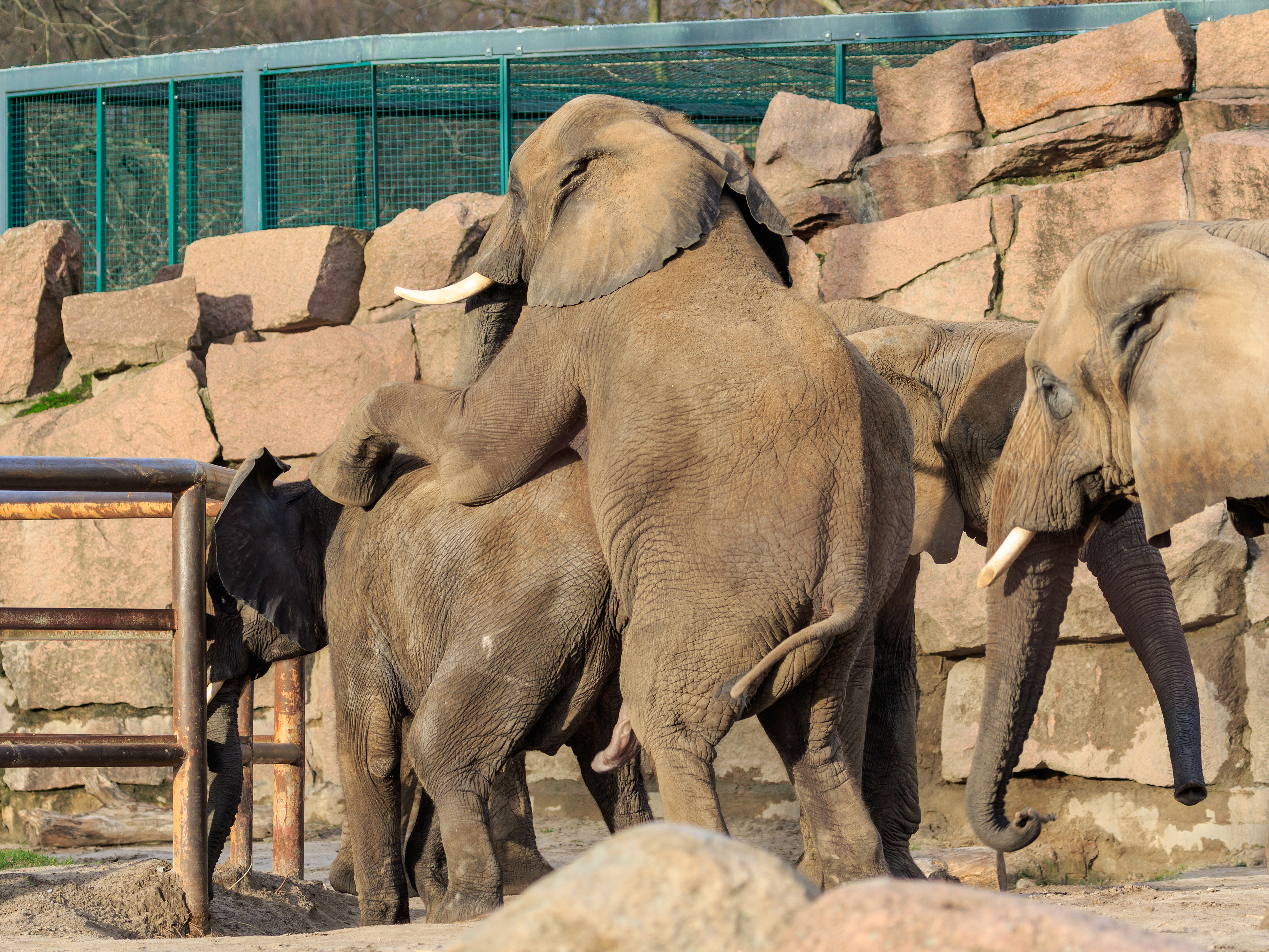 African elephants in the Berlin Tierpark (Friedrichsfelde zoo)